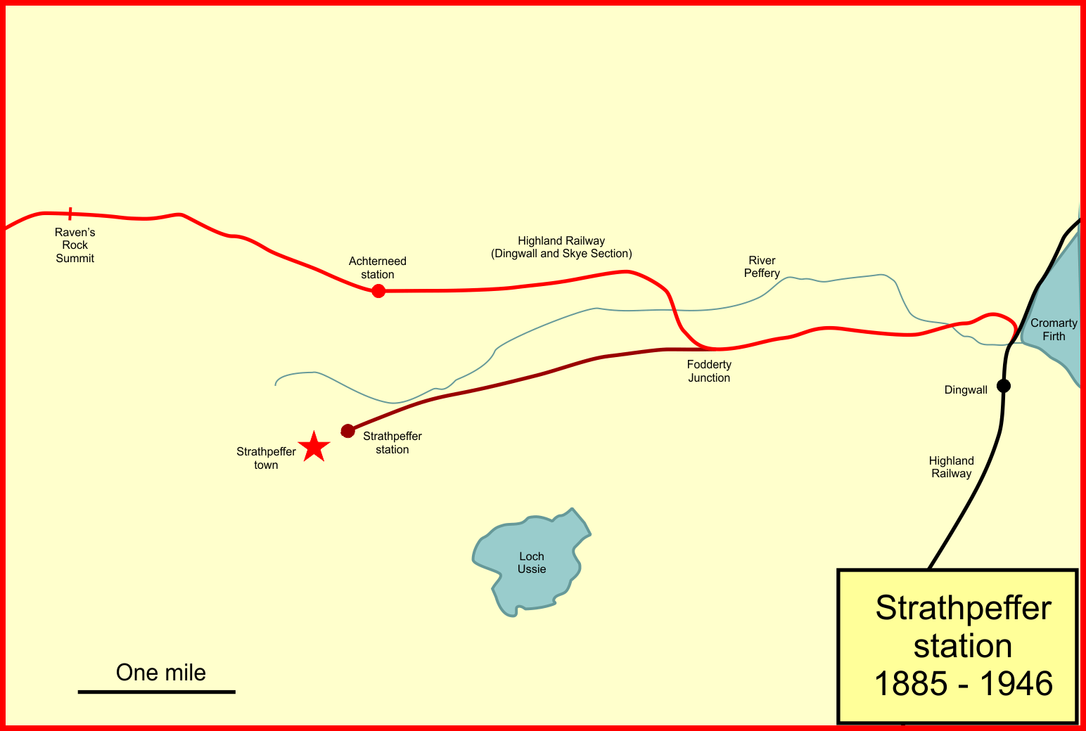 Map showing location of Strathpeffer railway station, Scotland, from 1885 until 1946